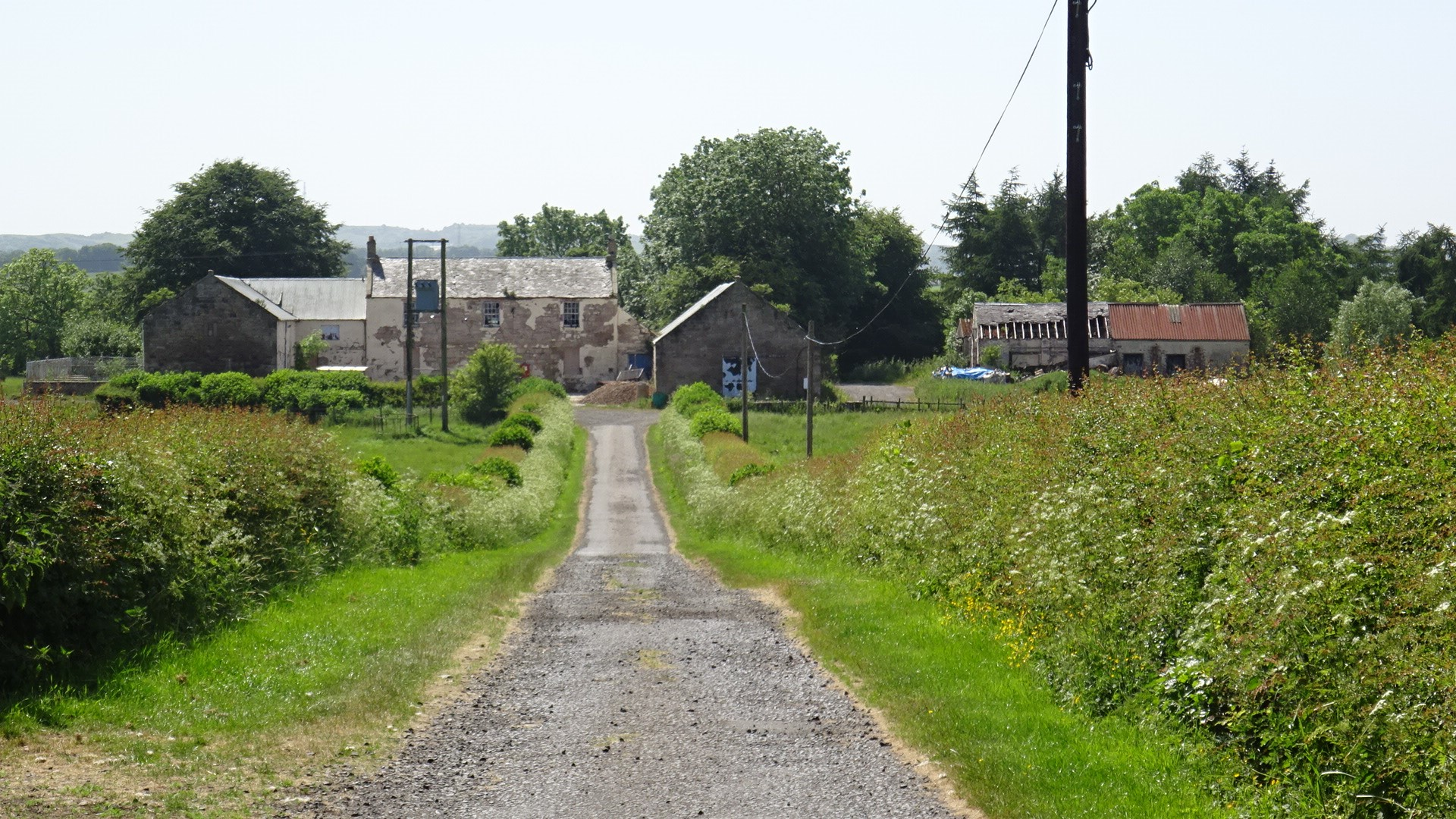 Todrigs Farm, Earlston, East Ayrshire - location of the old Eglinton Kennels.